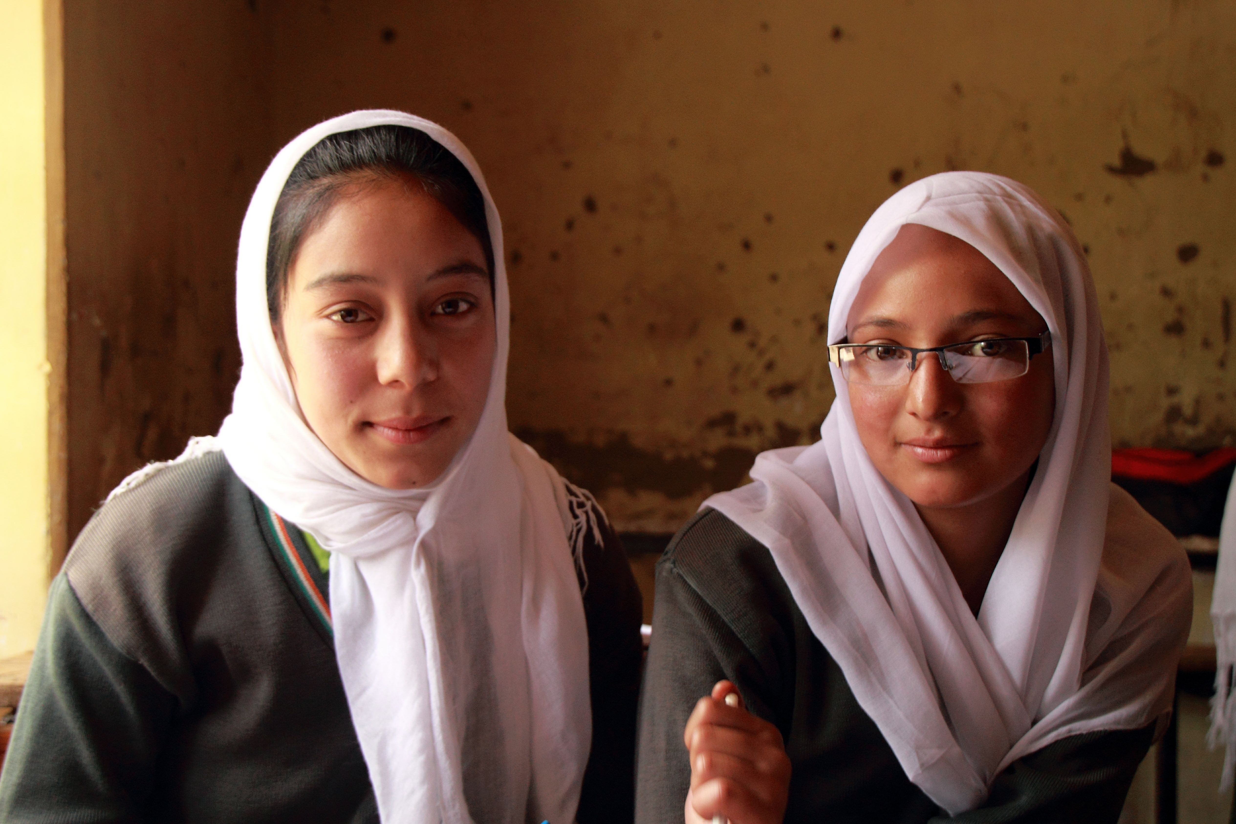 At school in Turtuk - Nubra Valley